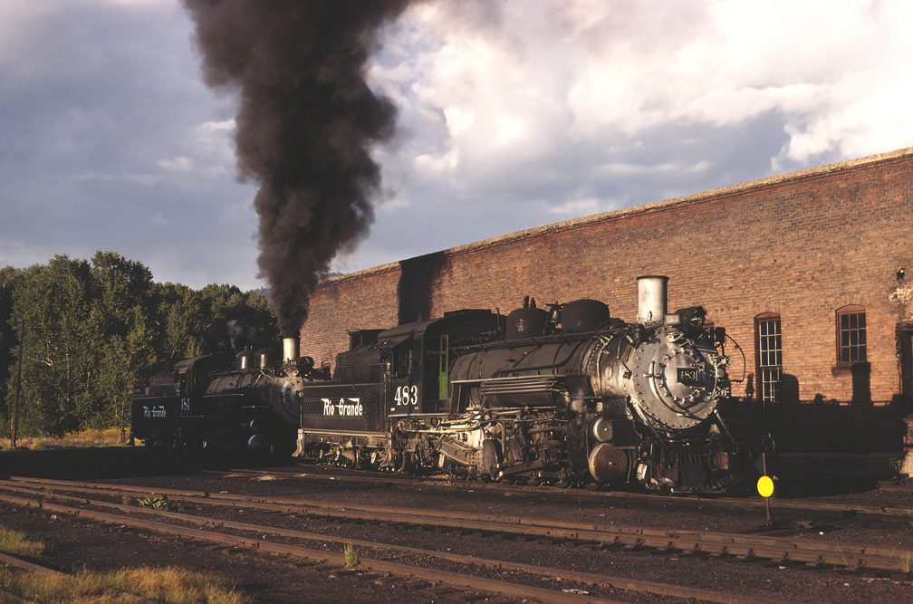 After arriving in Chama from Alamosa, D&RGW #484 and #483 rest outside the Chama engine house ready to be serviced. June 1967